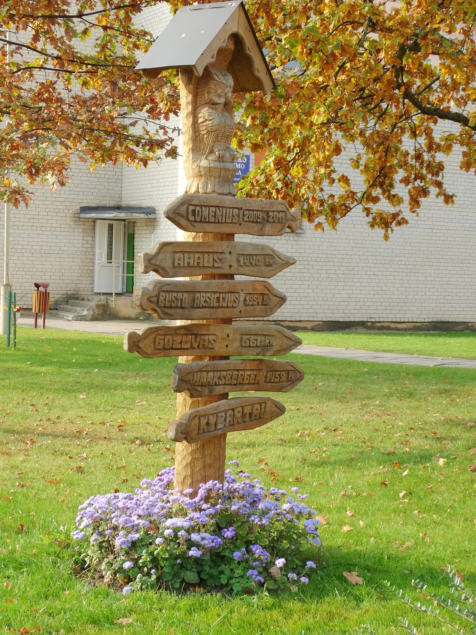 Gymnasium, Kybartai, Lithuania